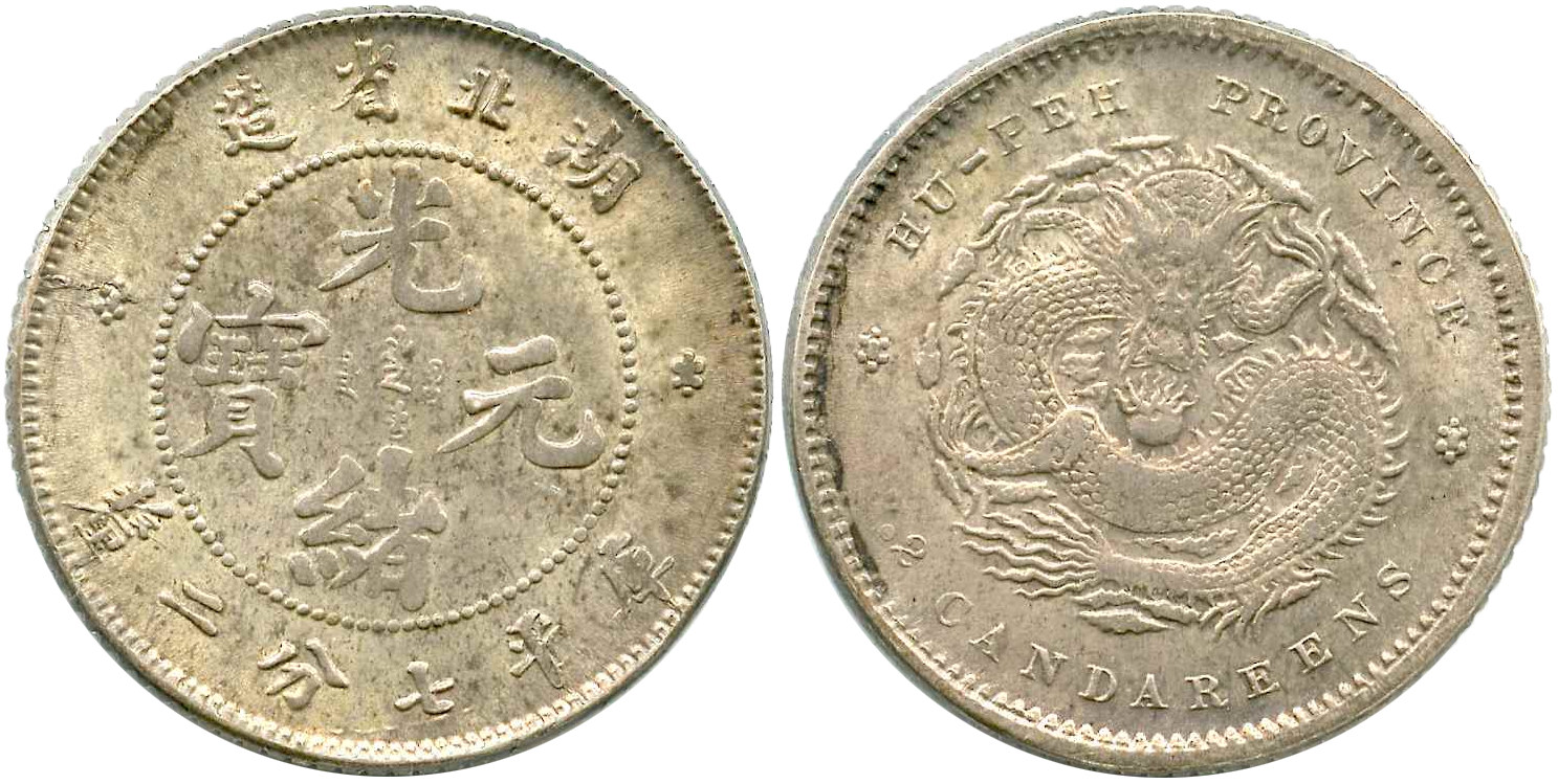 7.2 Candareens - Guangxu Yuanbao (Hubei Mint) - Scott Semans